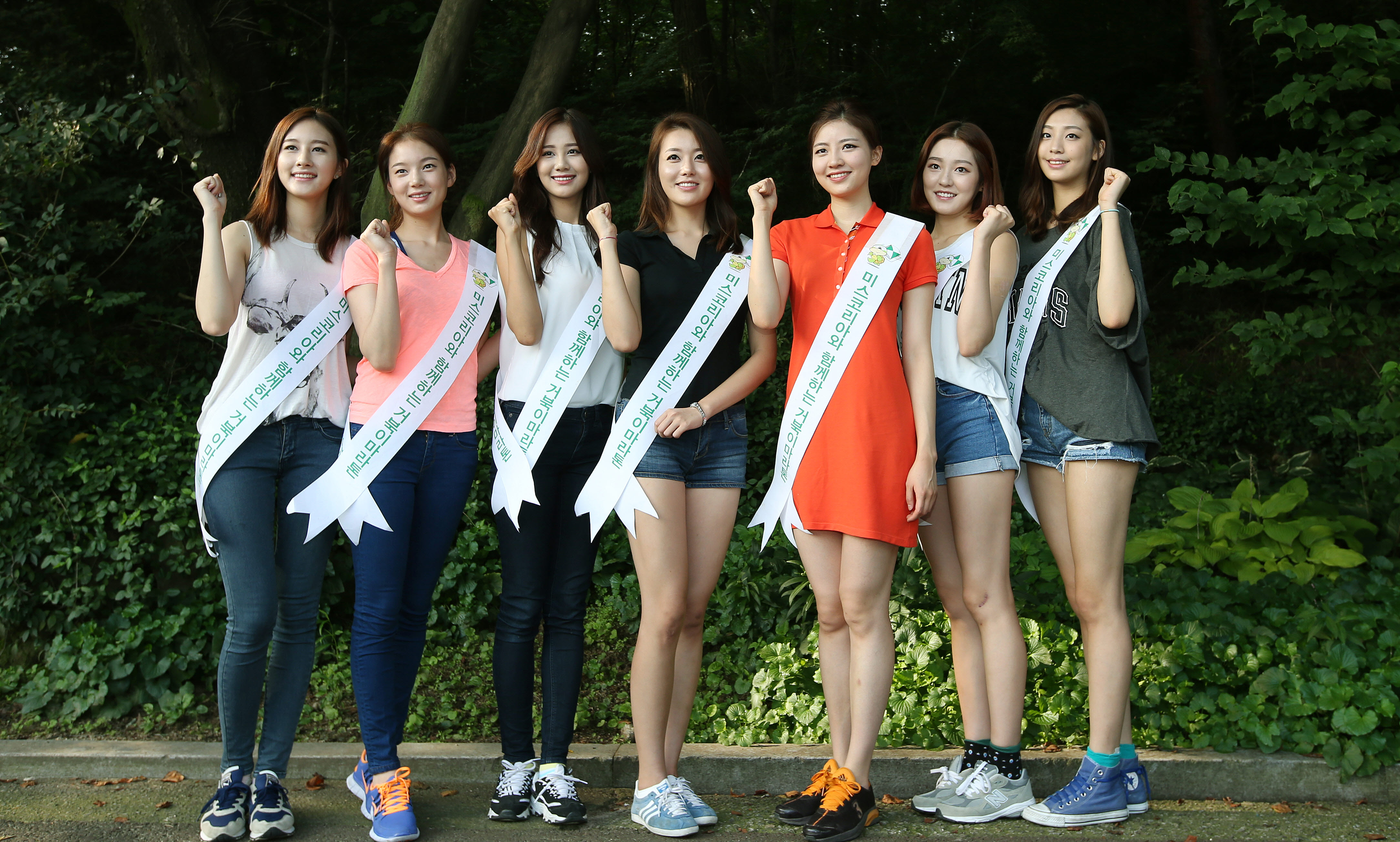 Namsan Trail Turtle Walk-A-Thon August 24, 2014 Namsan, Seoul Ministry of Culture, Sports and Tourism Korean Culture and Information Service ( Official Photographer: Jeon Han This official Republic of Korea photograph is CC-BY-SA-2.0-licensed, so while restrictions such as personality or privacy rights may apply, in general, manipulations are allowed. If you require a photograph without a watermark, please use Flickr e-mail.